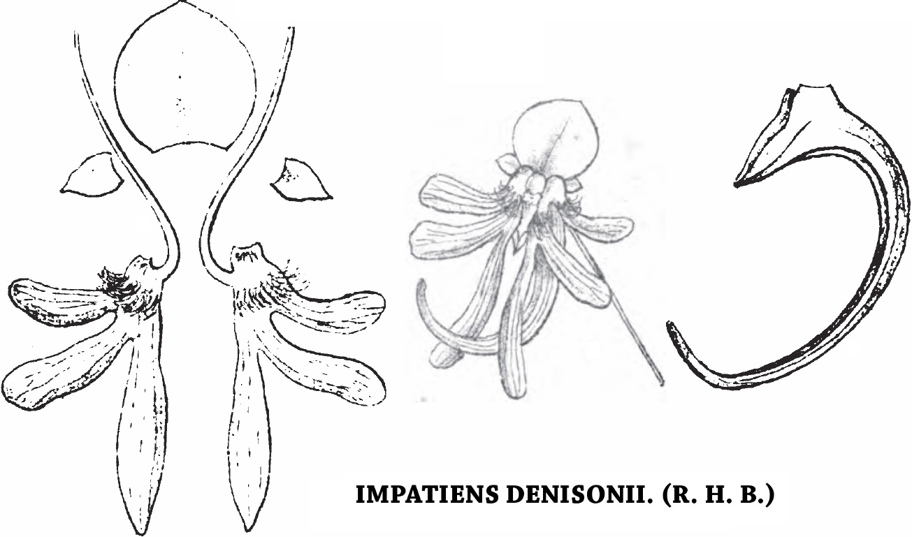 line drawing of Impatiens denisonii flower